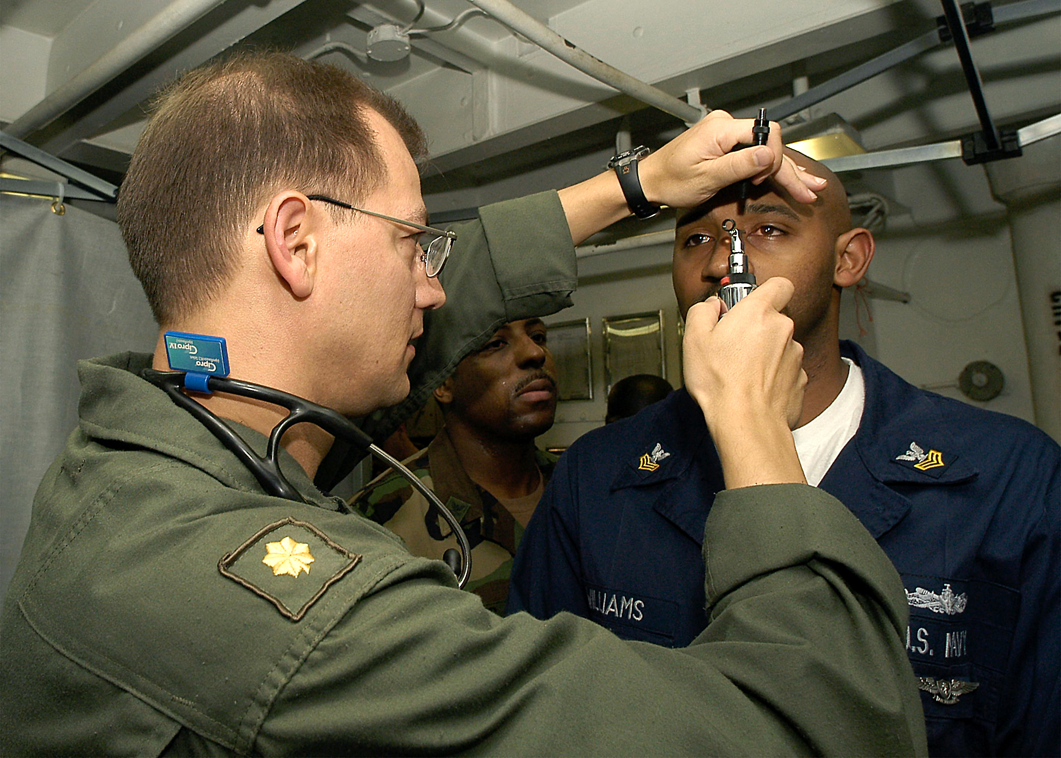 Arabian Gulf (May 31, 2004) - U.S. Navy Flight Surgeon, Lt. Cmdr. Scott Carlson of Downers Grove, Ill., performs an eye examination on Operation Specialist 1st Class Naron Williams of Jacksonville, Fla., in the ship's Medical Department as part of a routine medical screening aboard USS George Washington (CVN 73). The Norfolk, Va. based nuclear powered aircraft carrier is on a scheduled deployment in support of Operation Iraqi Freedom (OIF). U.S. Navy photo by Photographer's Mate Airman Robert Brooks (RELEASED)